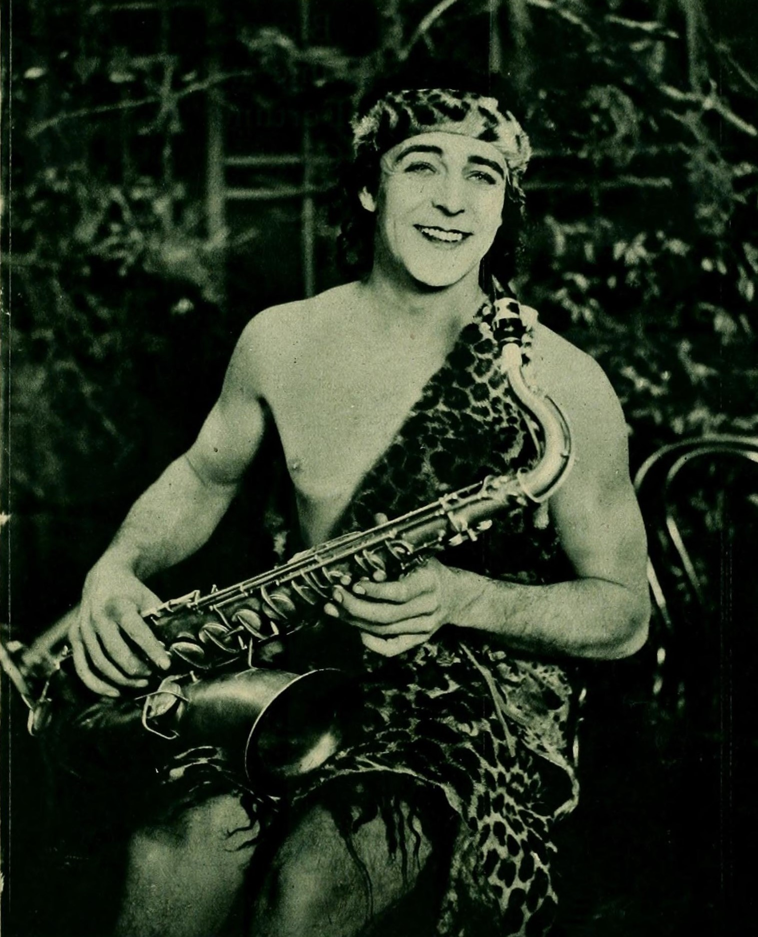 Wallace Reid in The Dancin' Fool, 1920